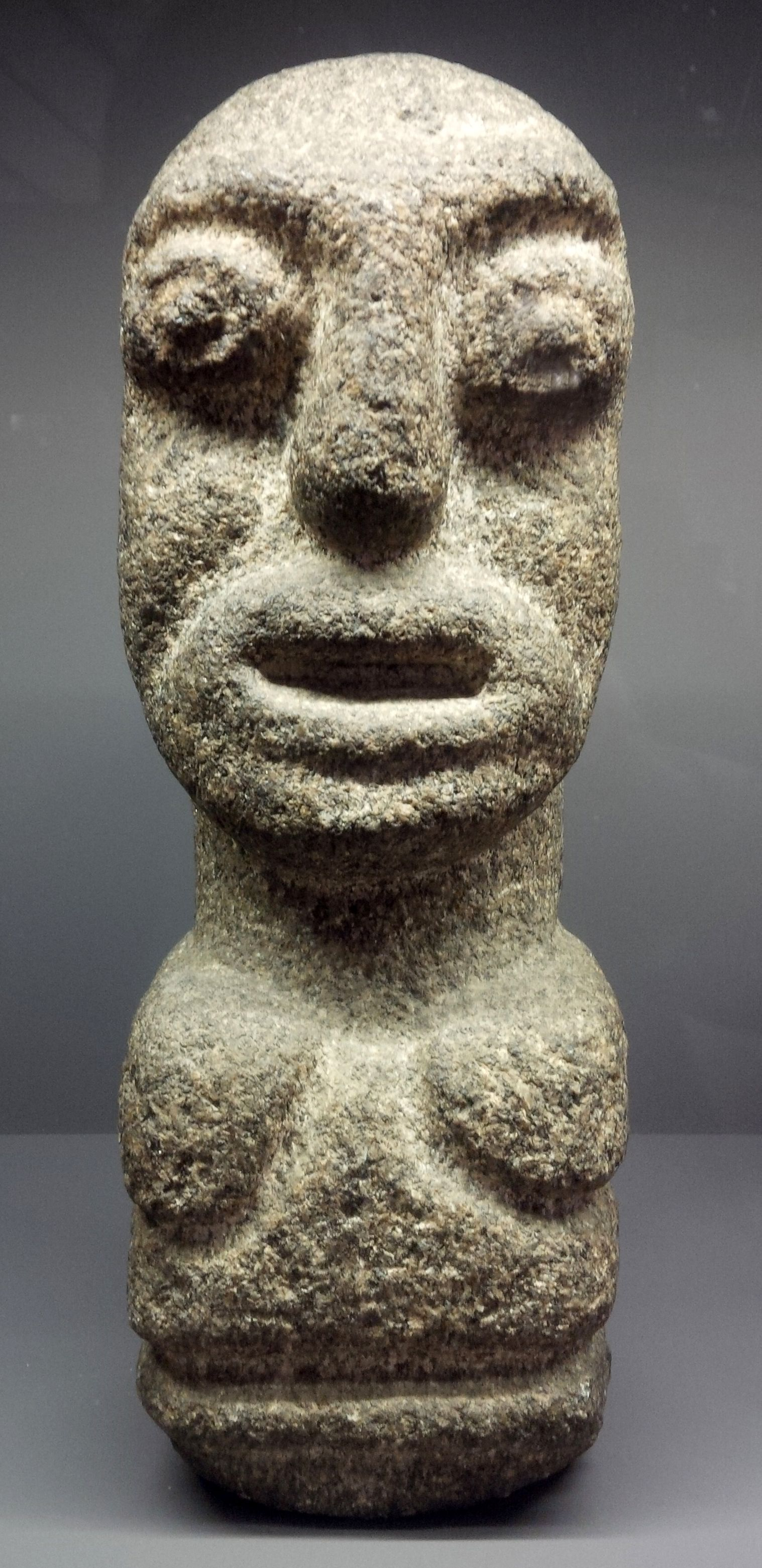 Granite and volcanic stone. Collection ABCD.